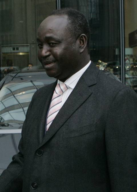 François Bozize, President of the Central African Republic Credits: UNDP